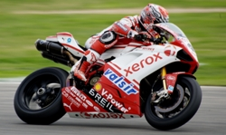 Noriyuki Haga at Cheste Circuit (Valencia-Spain)